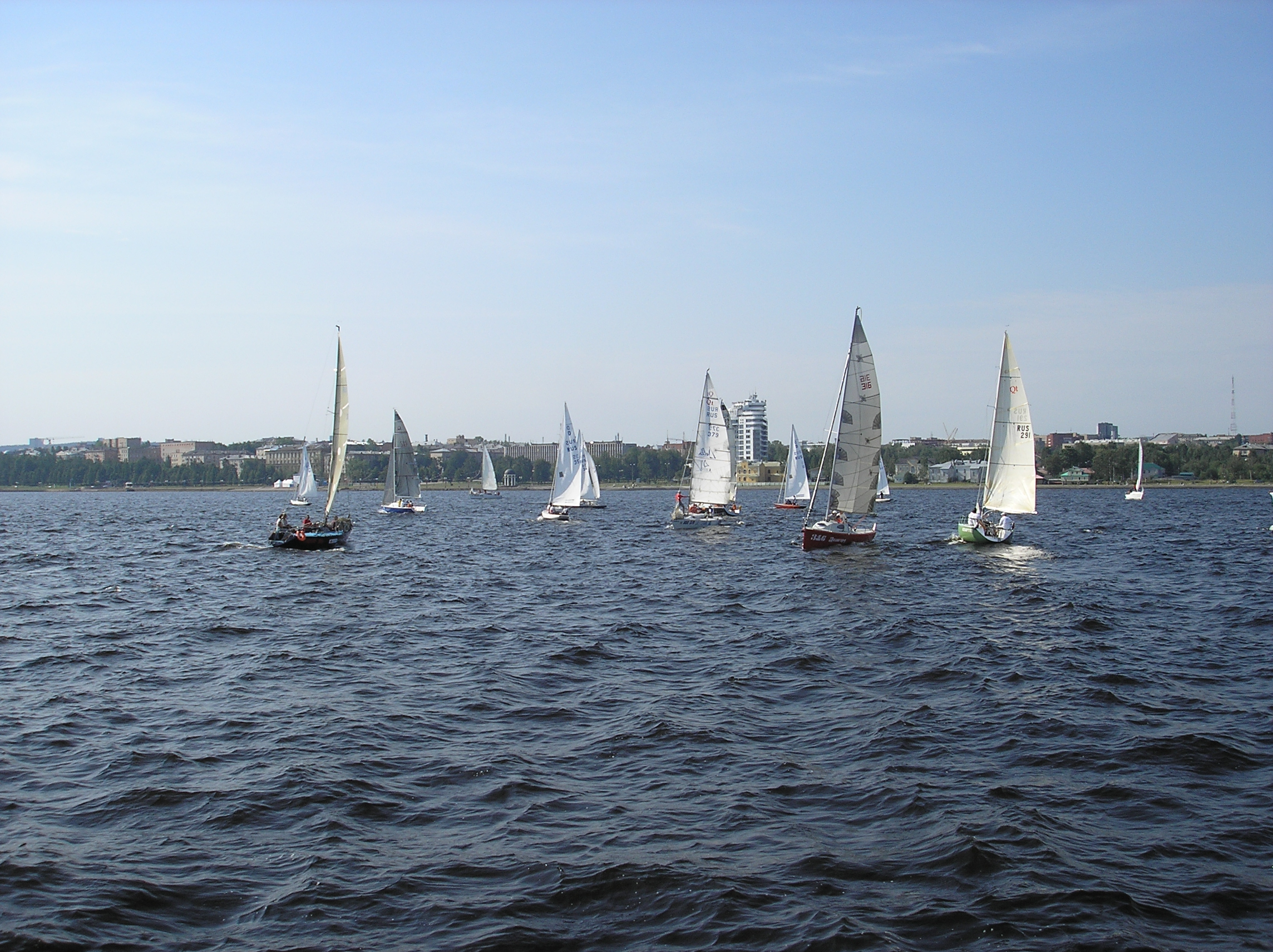 40-th Regatta "Onego-2011" near Petrozavodsk. Russia